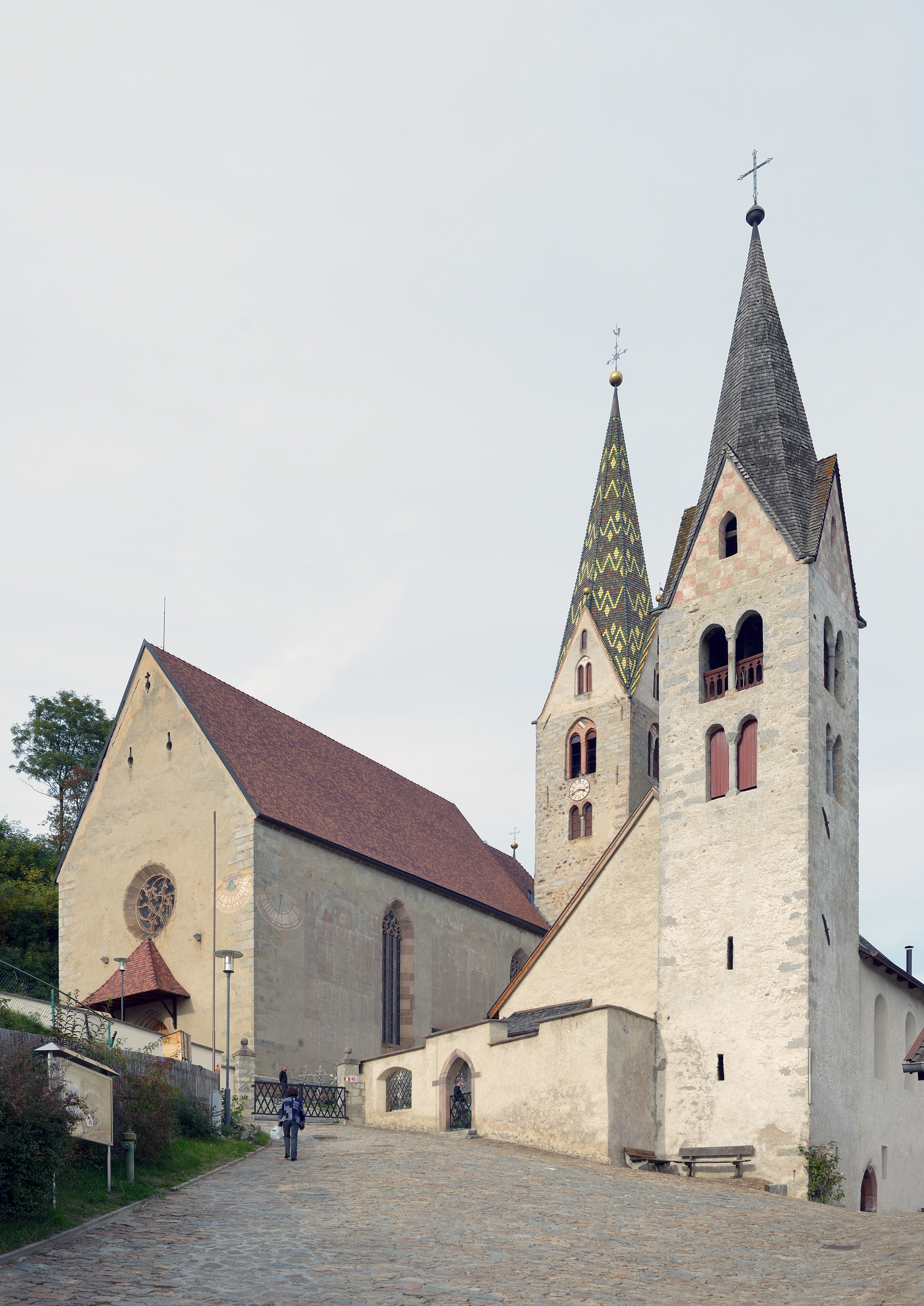 The parish church of Villanders in South Tyrol with the cemetery chapel